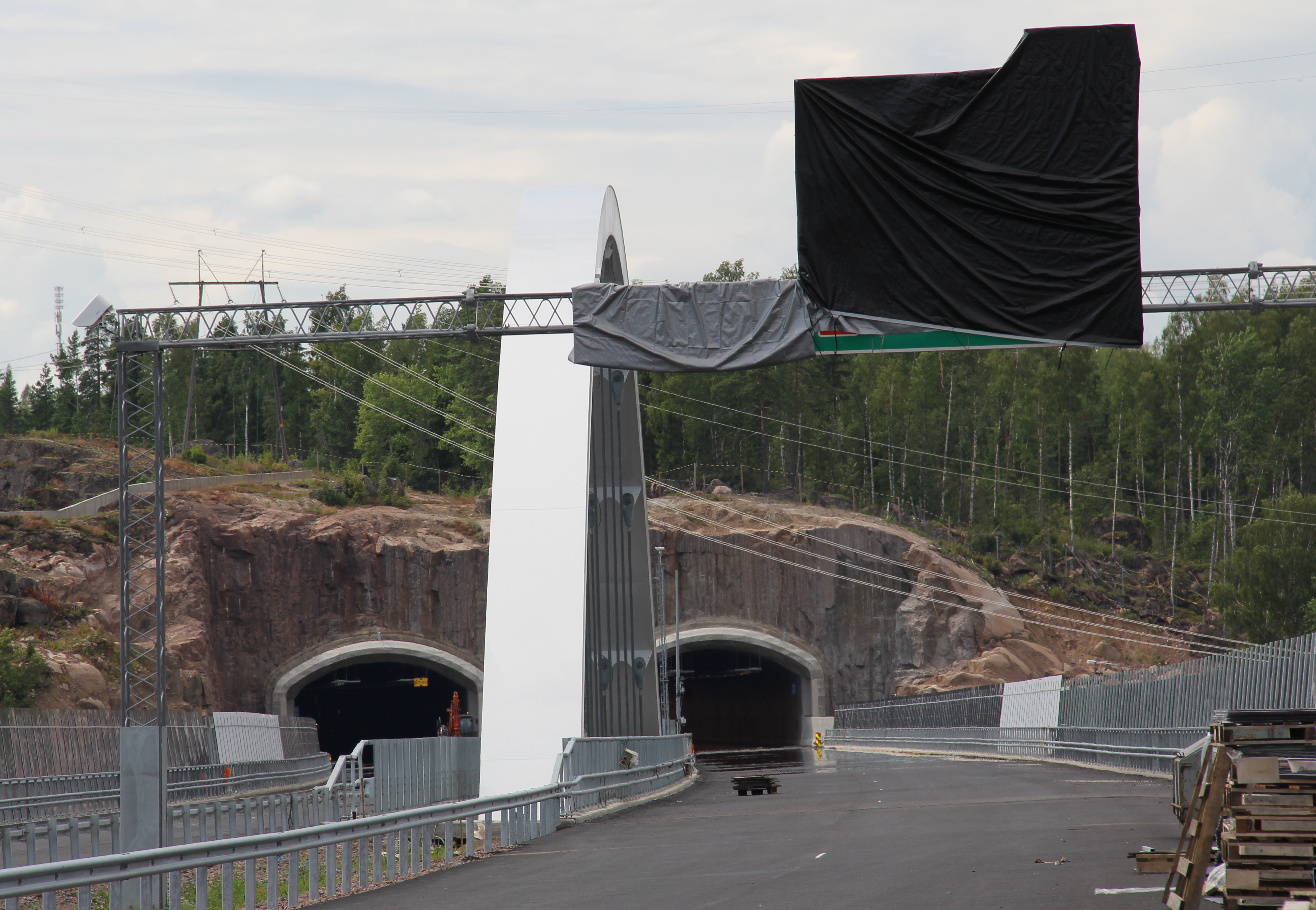 Ahvenkoski highway bridgea, European route 18, Pyhtää and Loviisa, Finland. - Bridges and road under construction, opened in september 2014.